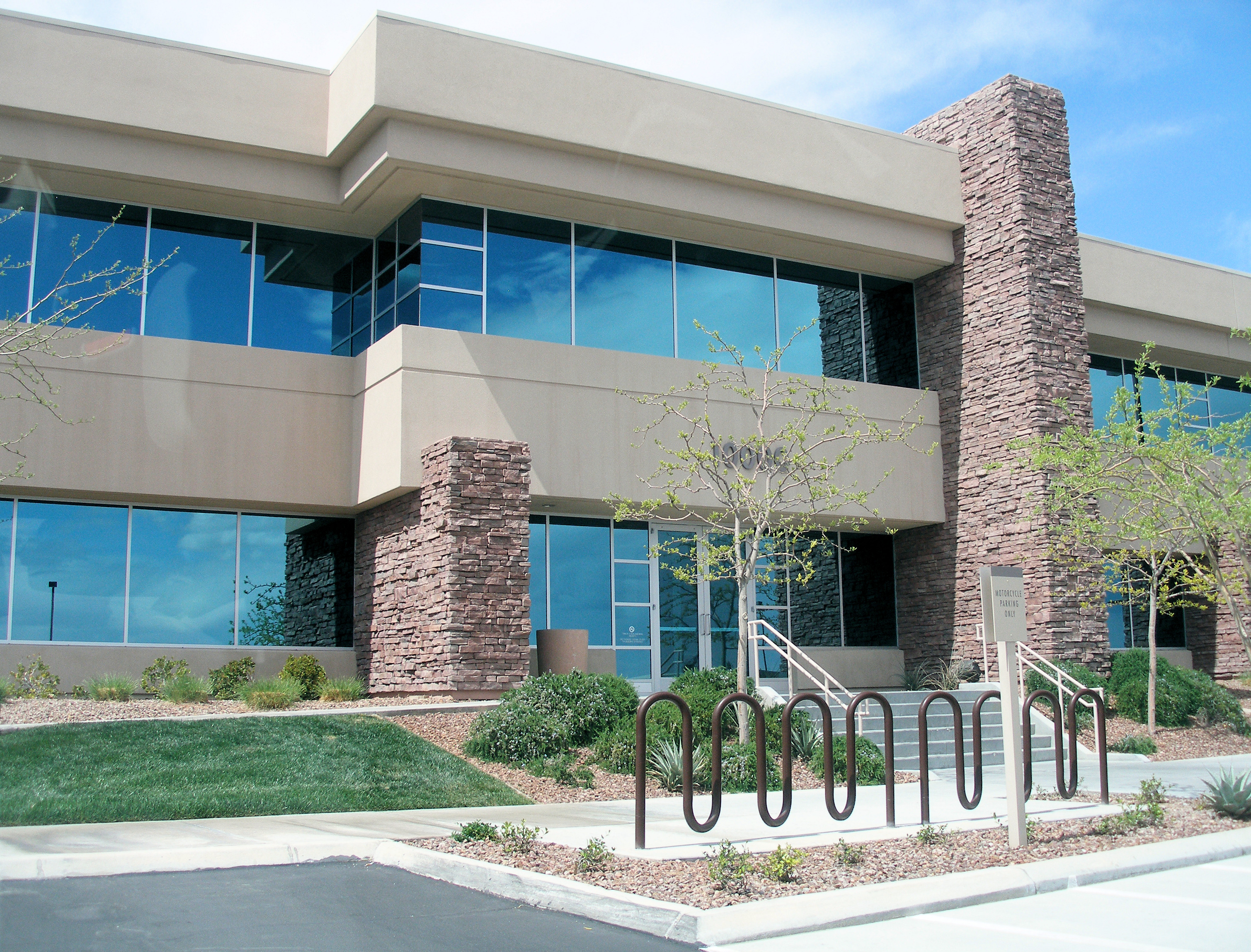 The entrance to the headquarters of The Howard Hughes Corporation at 10000 W. Charleston Boulevard in Summerlin.